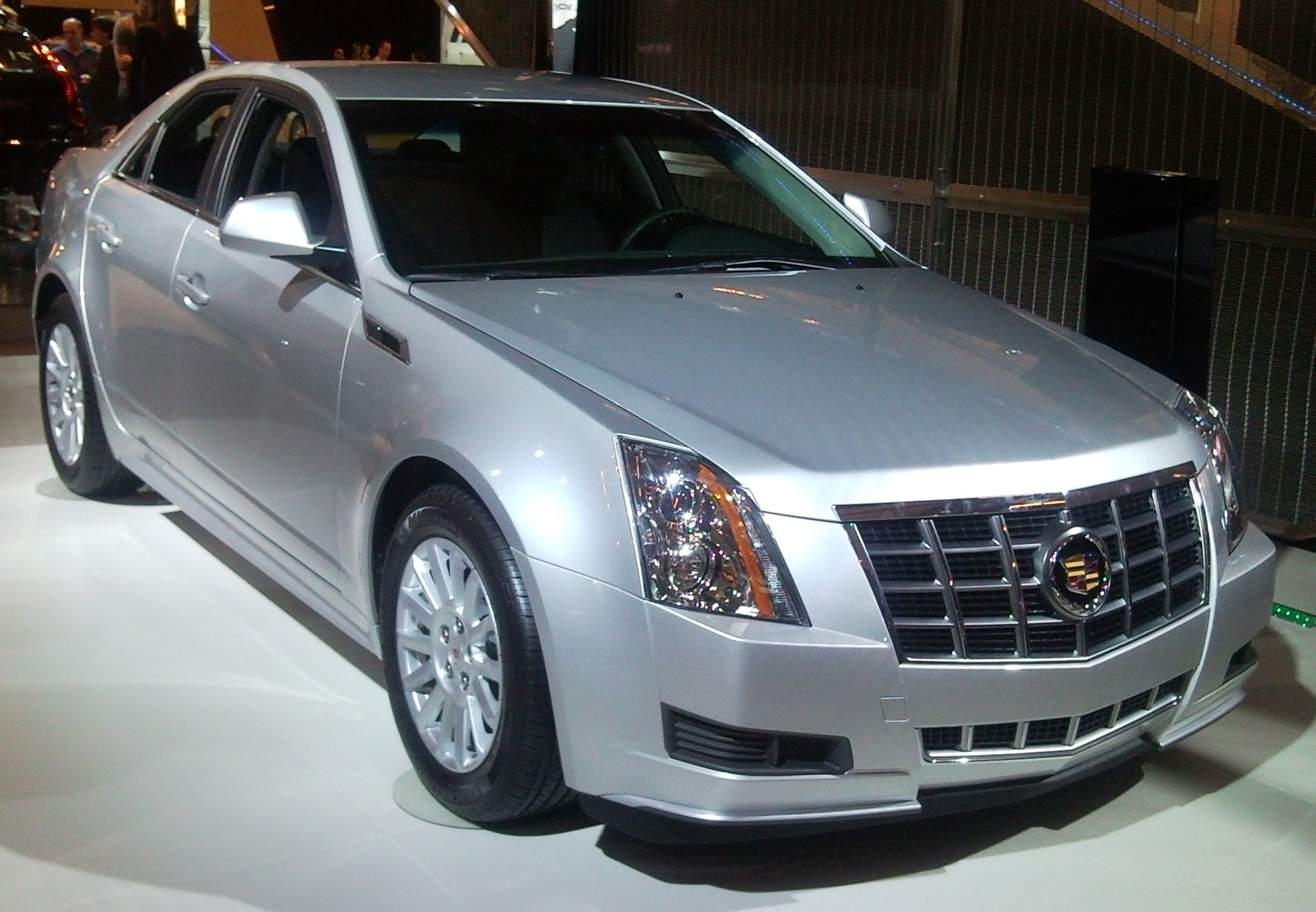 2012 Cadillac CTS photographed in Montreal, Quebec, Canada at the 2012 Montreal International Auto Show